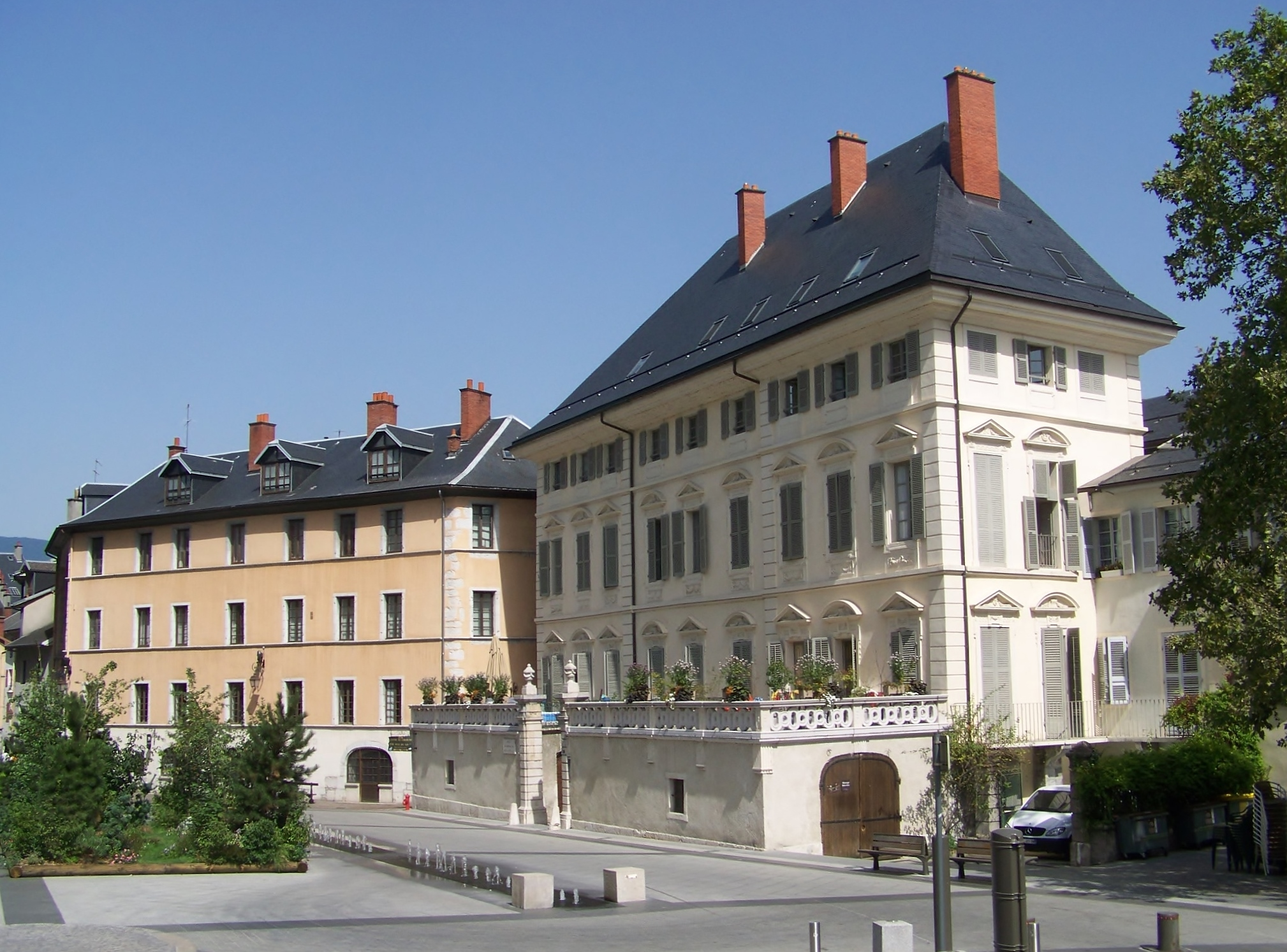 Sight of the hôtels particuliers Favre de Marnix (left) and Montfalcon (right), on the place du Château (castle place), in Chambéry, Savoie, France.